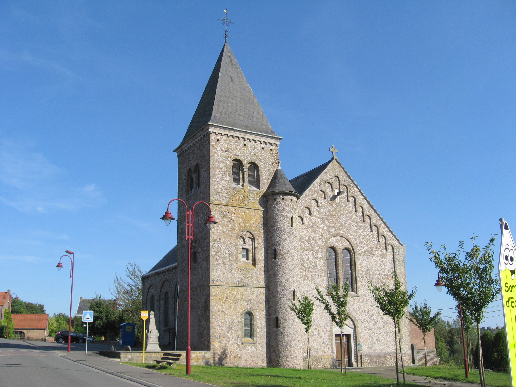 Church of Saint Martin in Avennes, Braives, Liège, Belgium